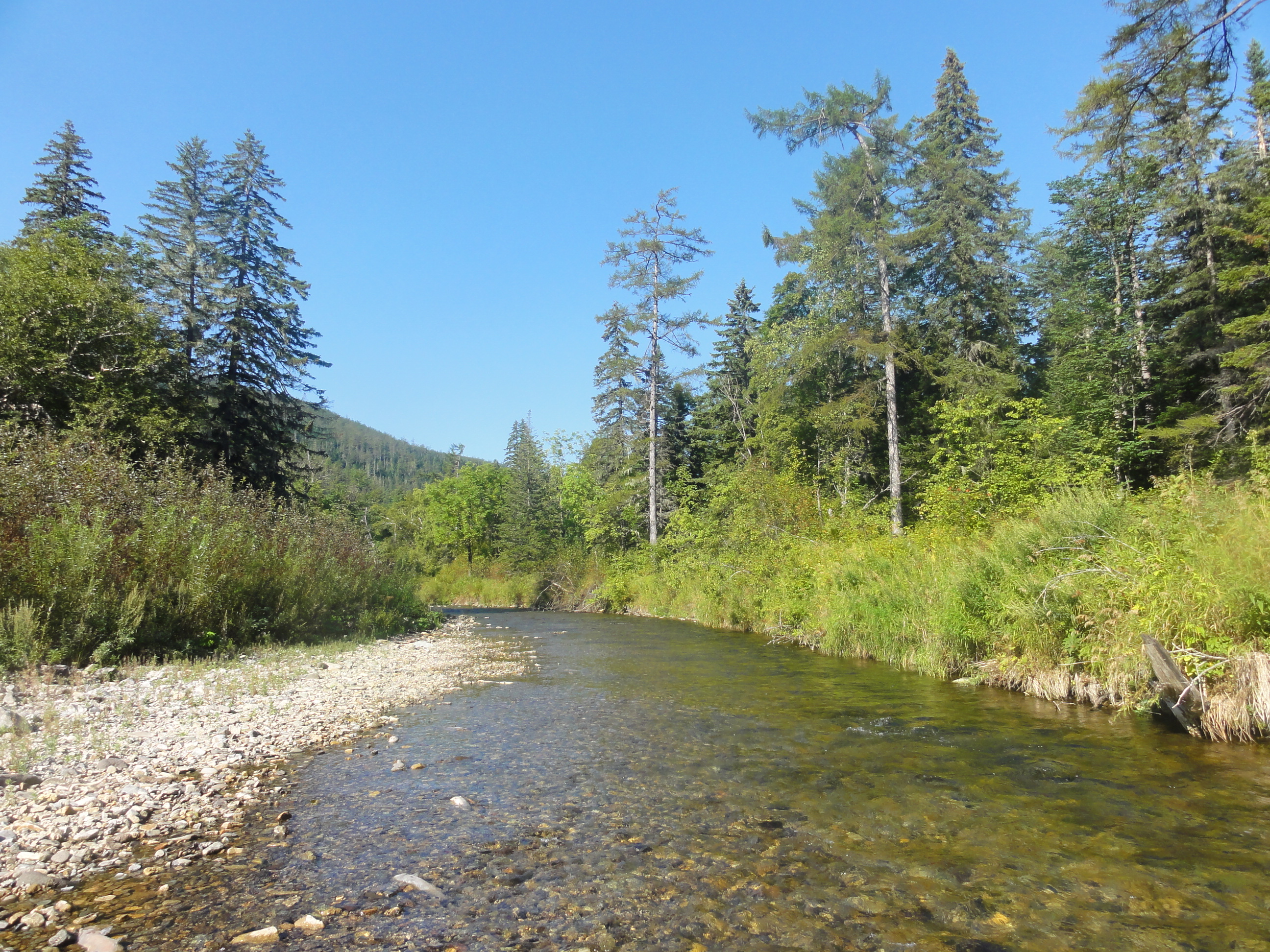 Upper reaches, Ikha River, Khabarovsk Krai